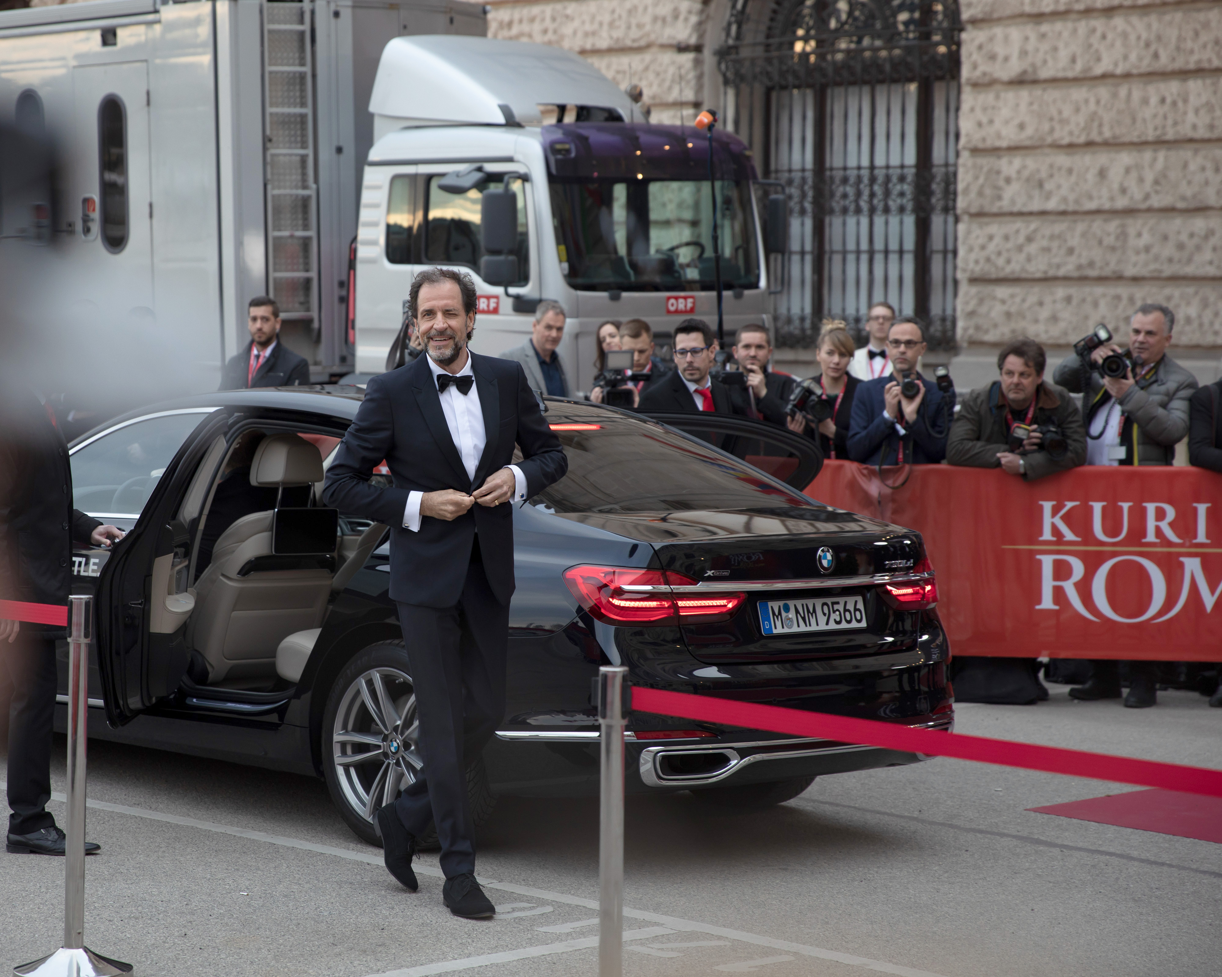 Helmfried von Lüttichau on the red carpet of the Romy TV awards 2018 at Hofburg Palace in Vienna, Austria.